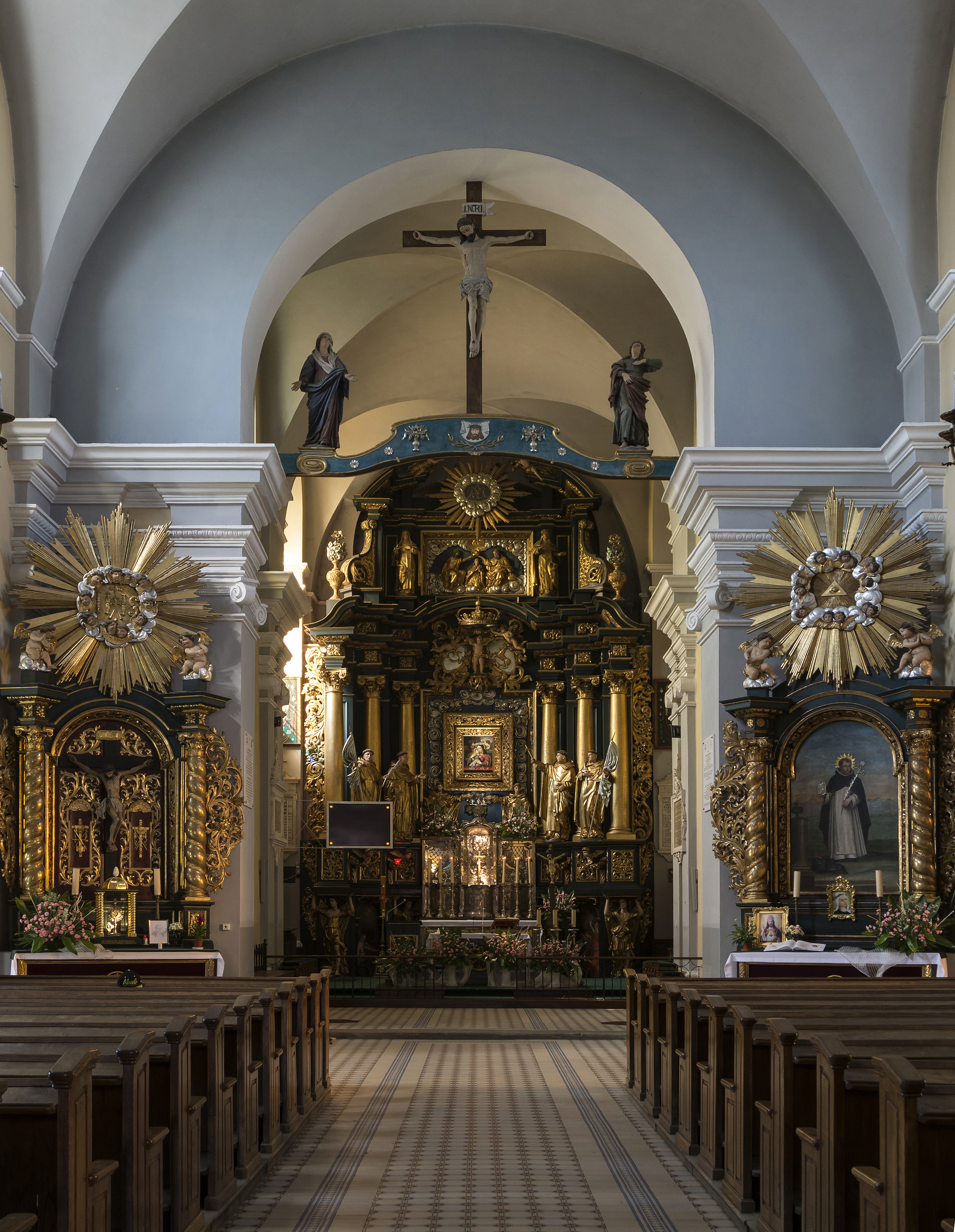 Church of the Assumption in Tarnobrzeg Ta fotografia przedstawia zabytek wpisany do rejestru zabytków pod numerem ID 632593